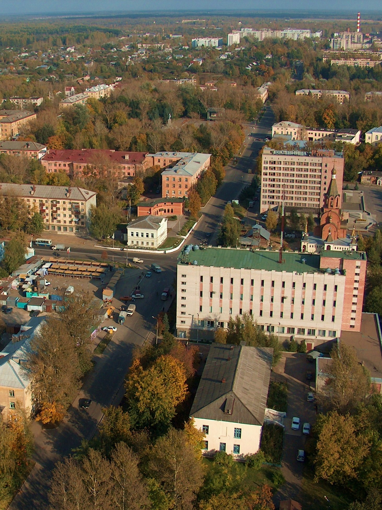 Karla Marxa street Rzhew